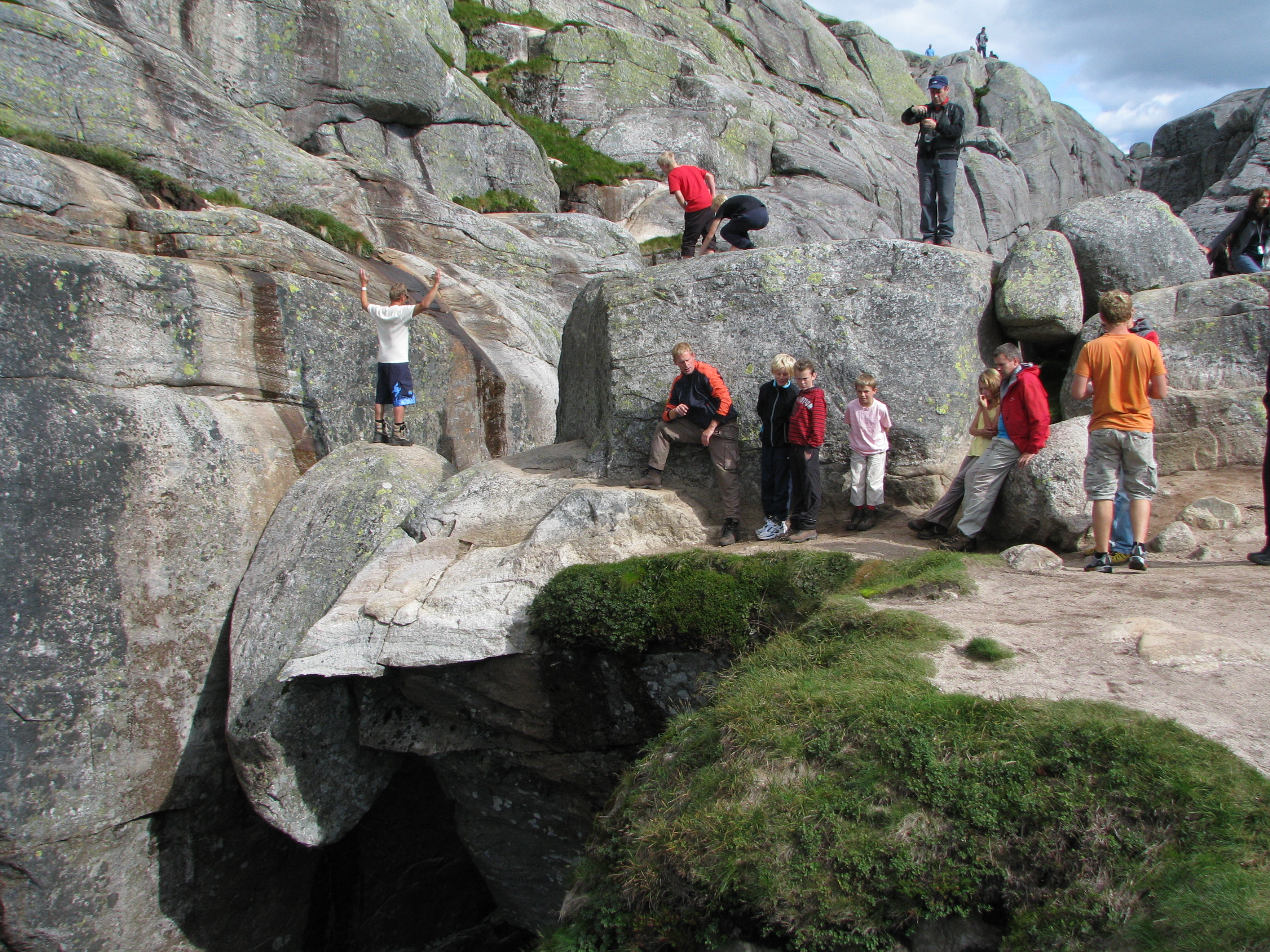 The Kjerag rock seen from the 'backside'